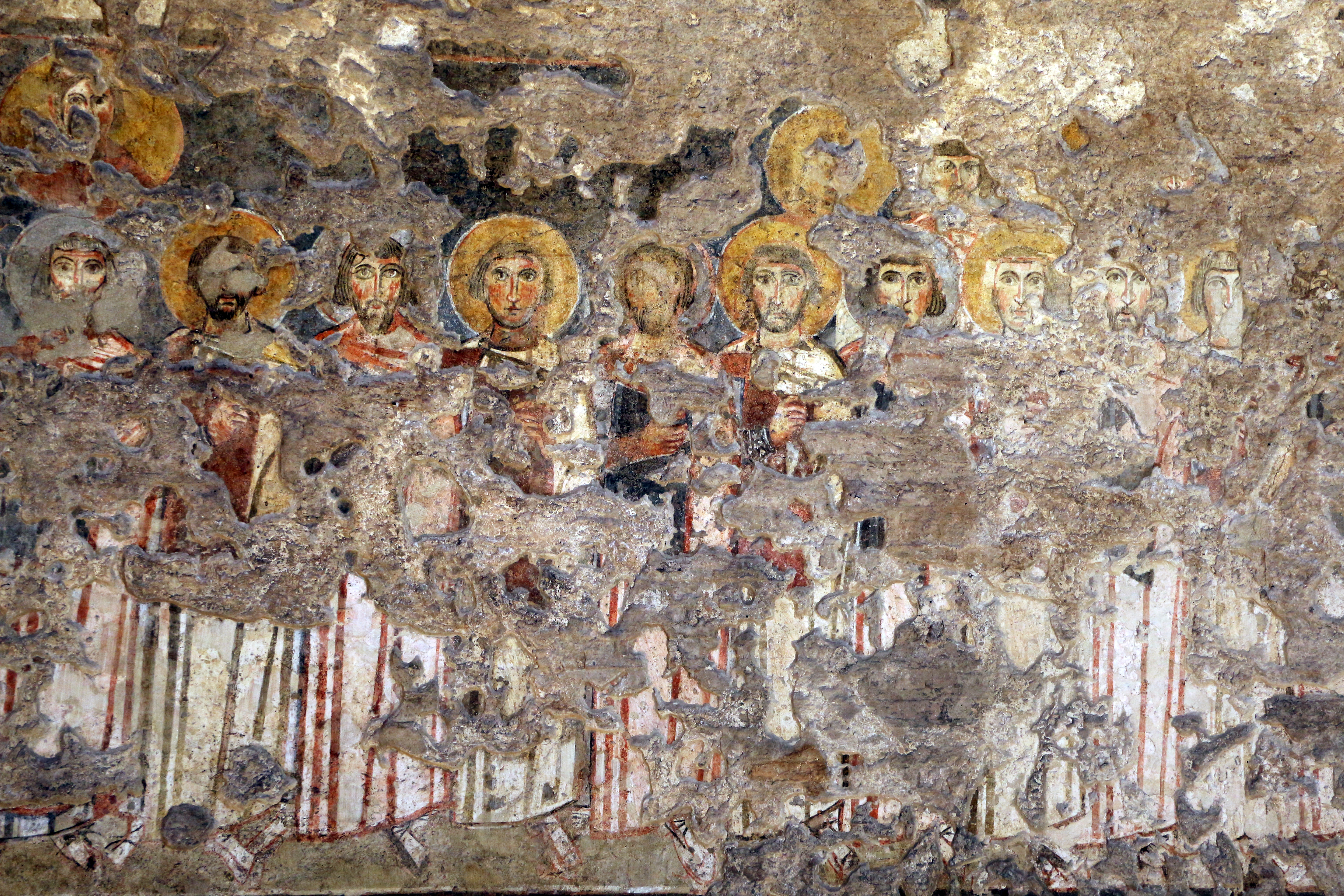 Quaranta Martiri (Rome)